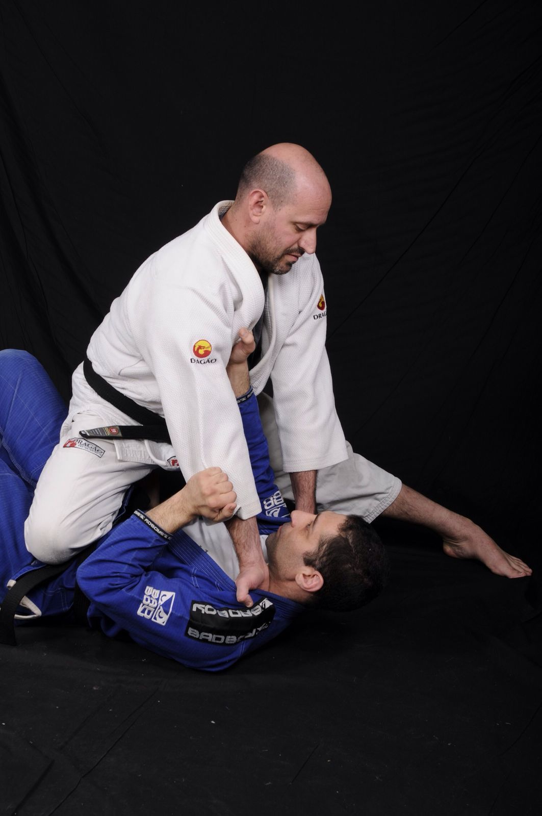 Ciro Zalcberg, 3rd degree black belt professor in brazilian Jiujitsu (BJJ) illustrates the transition to north south choke